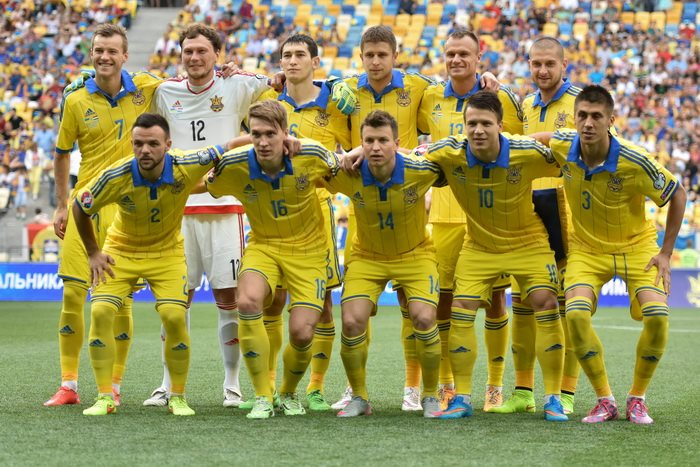 Ukraine vs Luxembourg 14062015 UEFA EURO 2016 Qualifying round - Group C